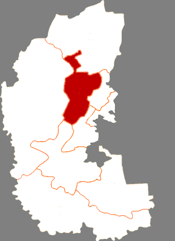 Location of Ranghulu District in Daqing City, China